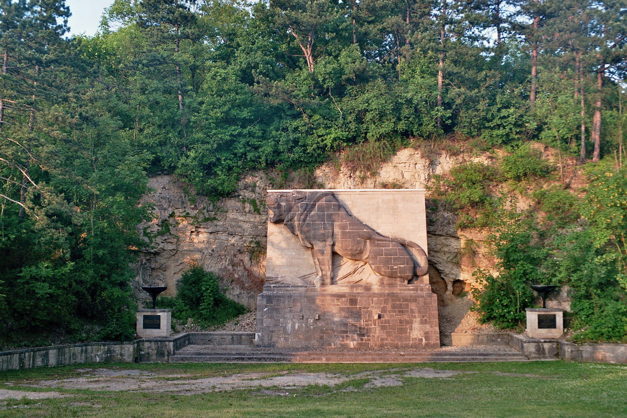 Lion's monument close to Rudelsburg Castle in Sachsen-Anhalt / Germany